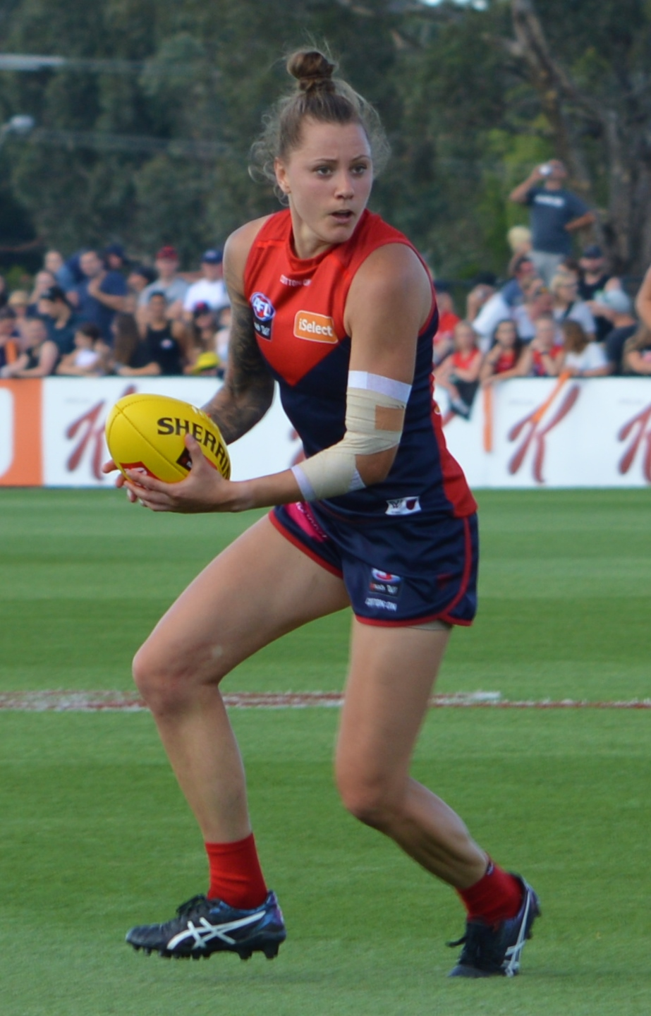 Bianca Jakobsson during the round 1, 2018 AFL Women's match between Melbourne and Greater Western Sydney.